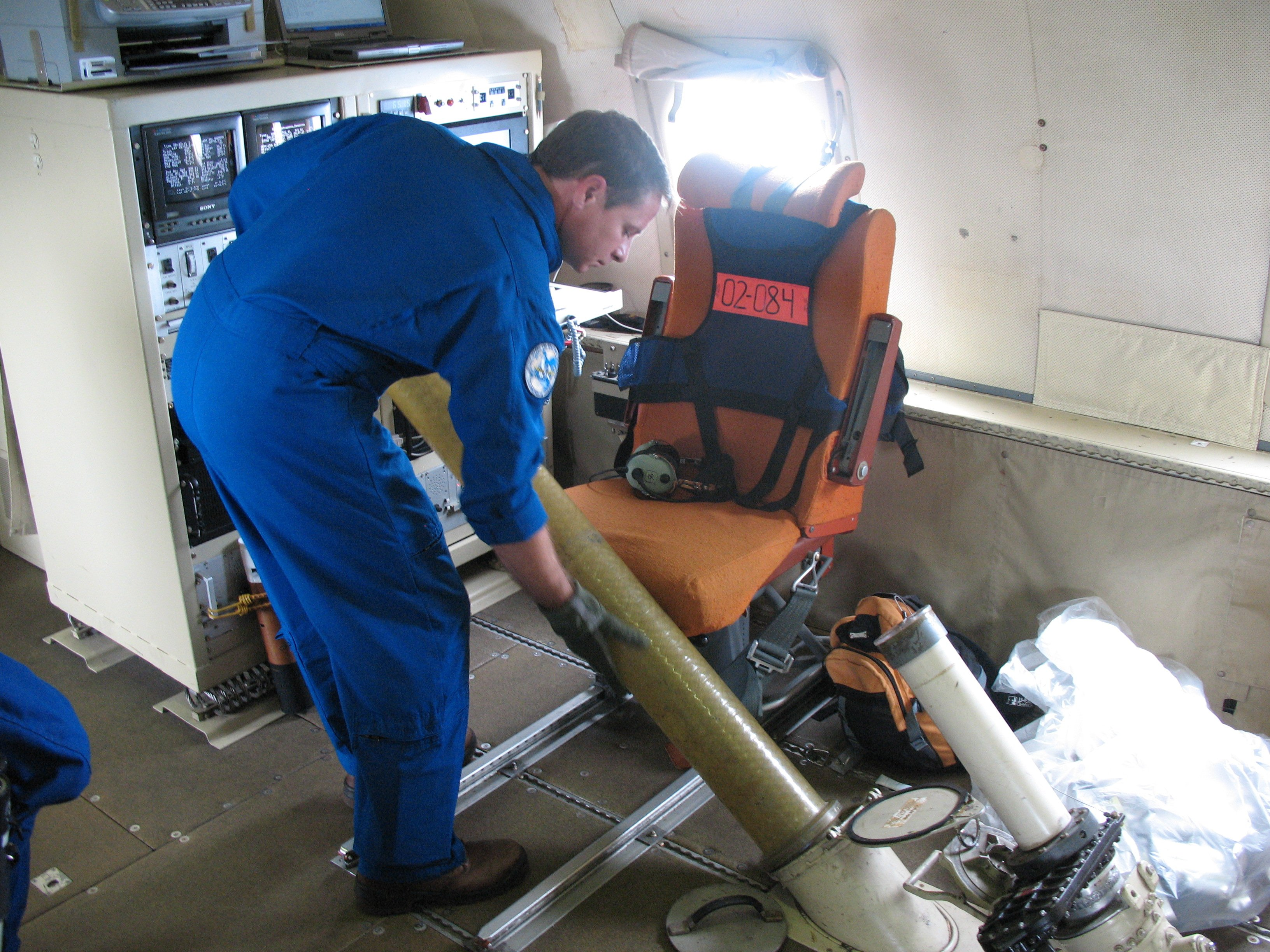 An operator prepares to launch a sonobuoy from one of the NOAA's WP-3D hurricane hunter aircraft.